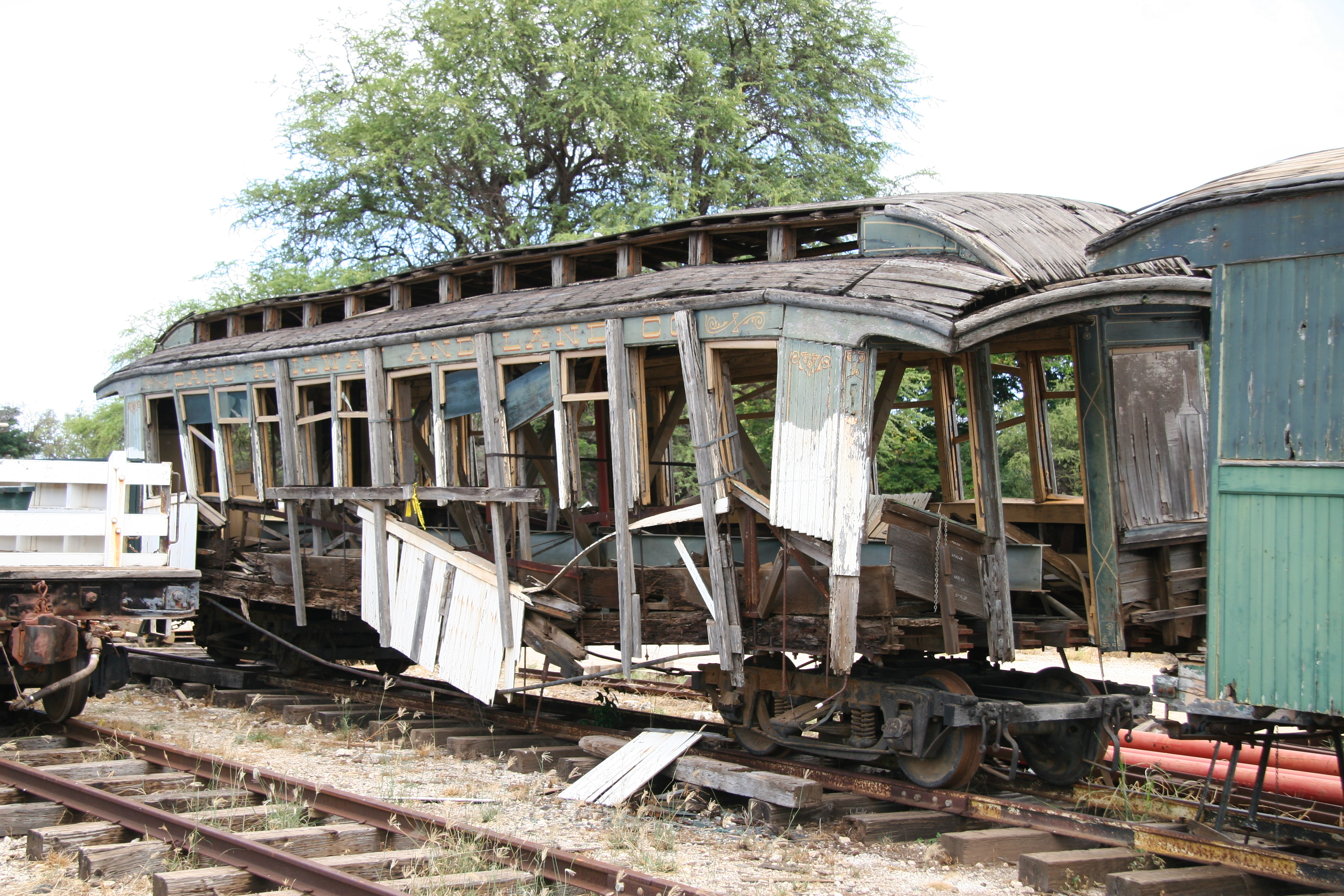 The matching observation car has been fully restored. Hawaiian Railway Society, Ewa Beach, Oahu, Hawaii.